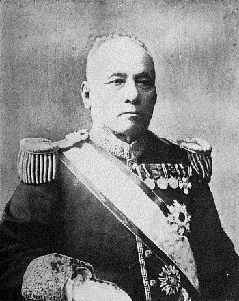 Magoshichiro Sugi